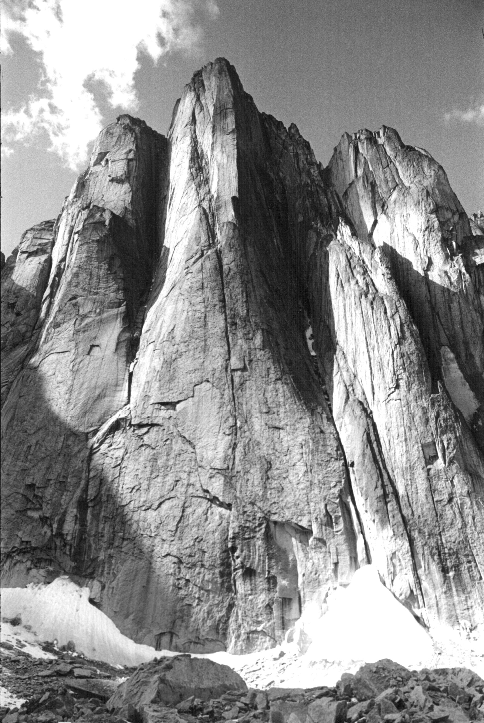 Lotus Flower Tower, Fairy Meadow, Cirque of the Unclimbables, Logan Mountains, Selwyn Range, Northwest Territories, Canada. Ascent of the southeast face by Sandy Bill, Jim McCarthy, and Tom Frost, August 10-13, 1968.